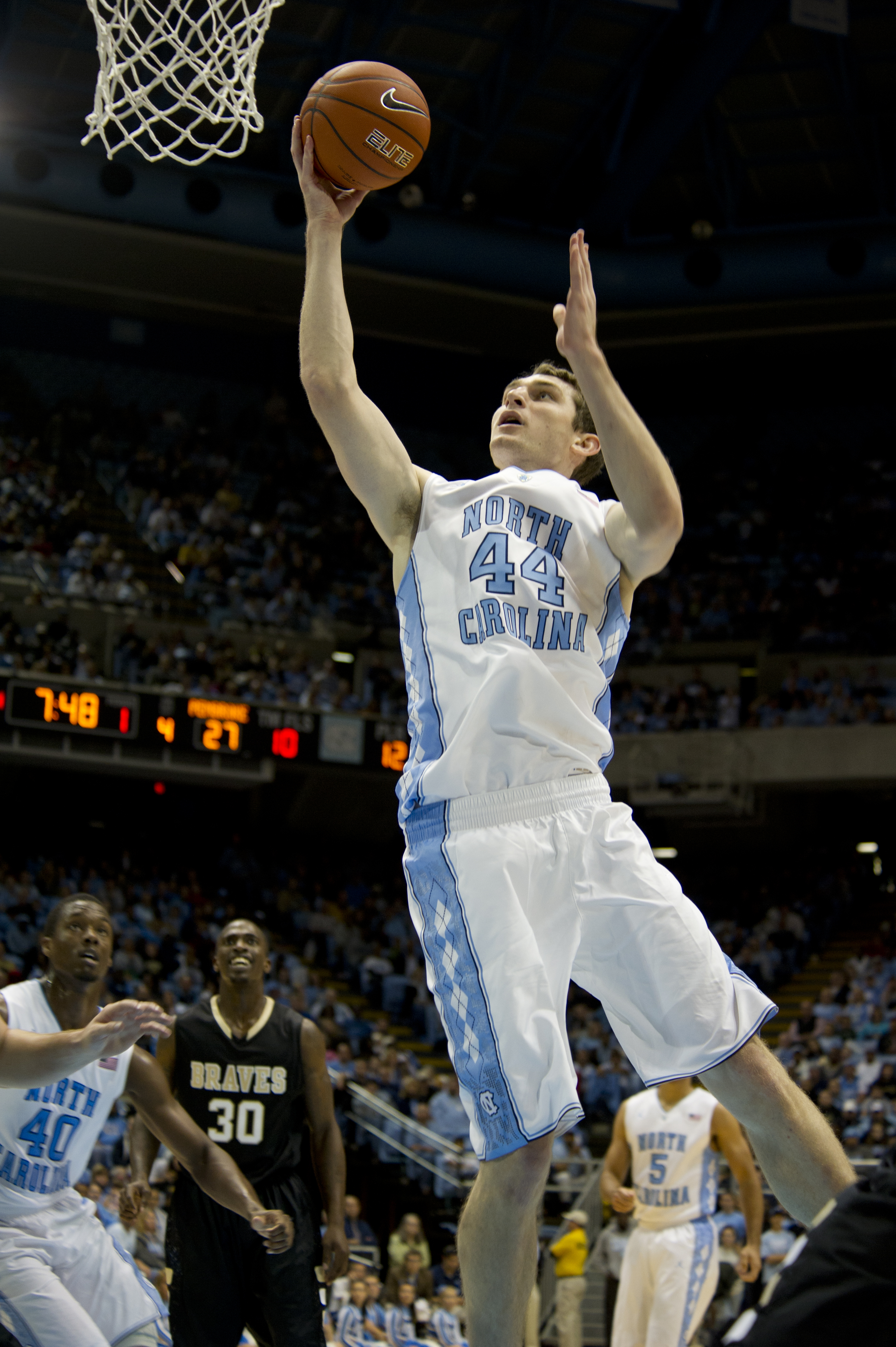 CHAPEL HILL, N.C. (Oct. 27, 2011) Tyler Zeller, forward for the University of North Carolina Tar Heels, competes in an exhibition game to prepare for the inaugural Quicken Loans Carrier Classic basketball game against Michigan State University. The game will be played aboard the aircraft carrier USS Carl Vinson (CVN 70) on Veteran's Day, Nov. 11. (U.S. Navy photo by Mass Communication Specialist 2nd Class David Danals/Released)